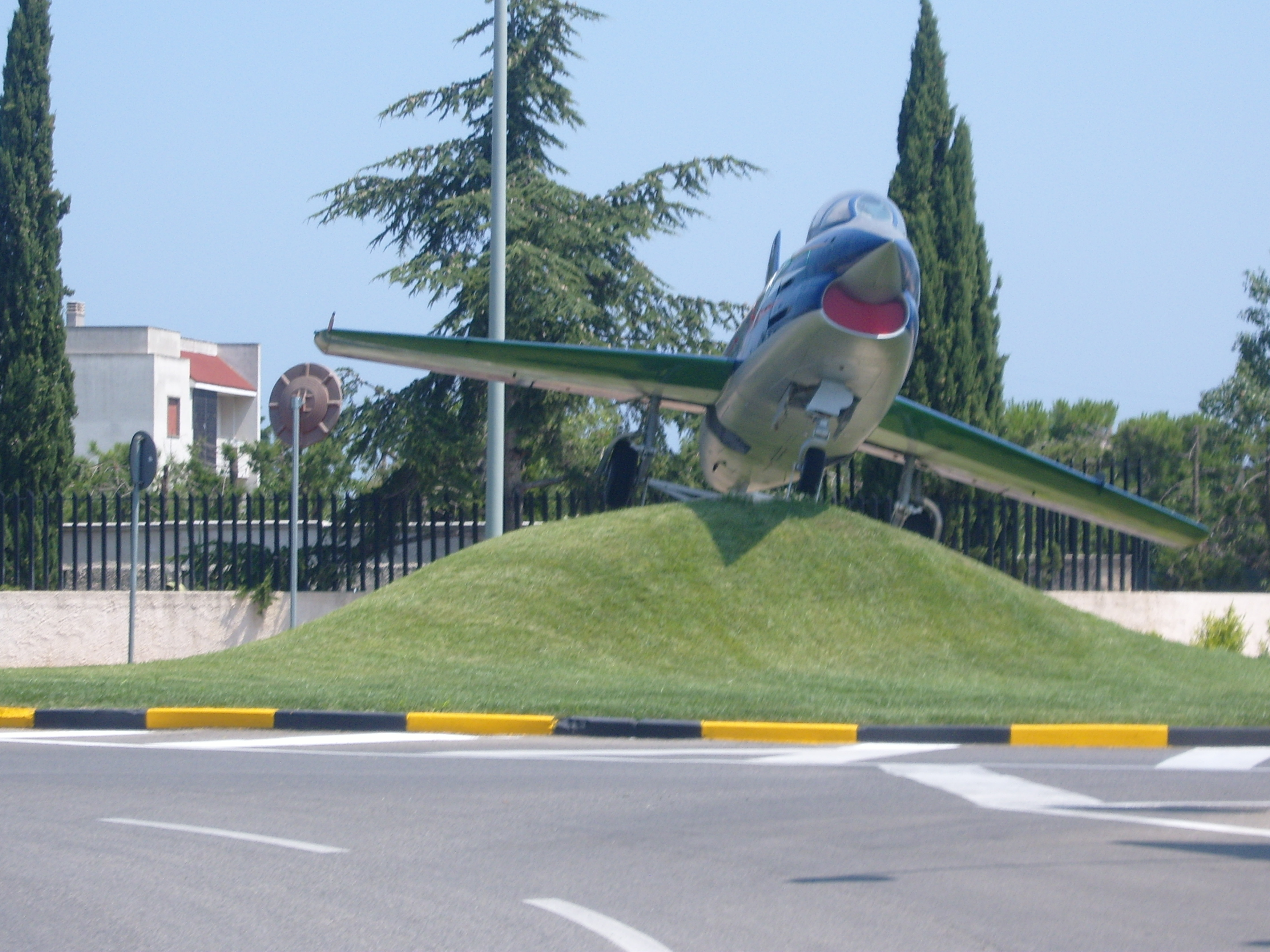 Real velivole of the Frecce Tricolori put as gate guardian at Brindisi Airport (Salento Airport), Italy